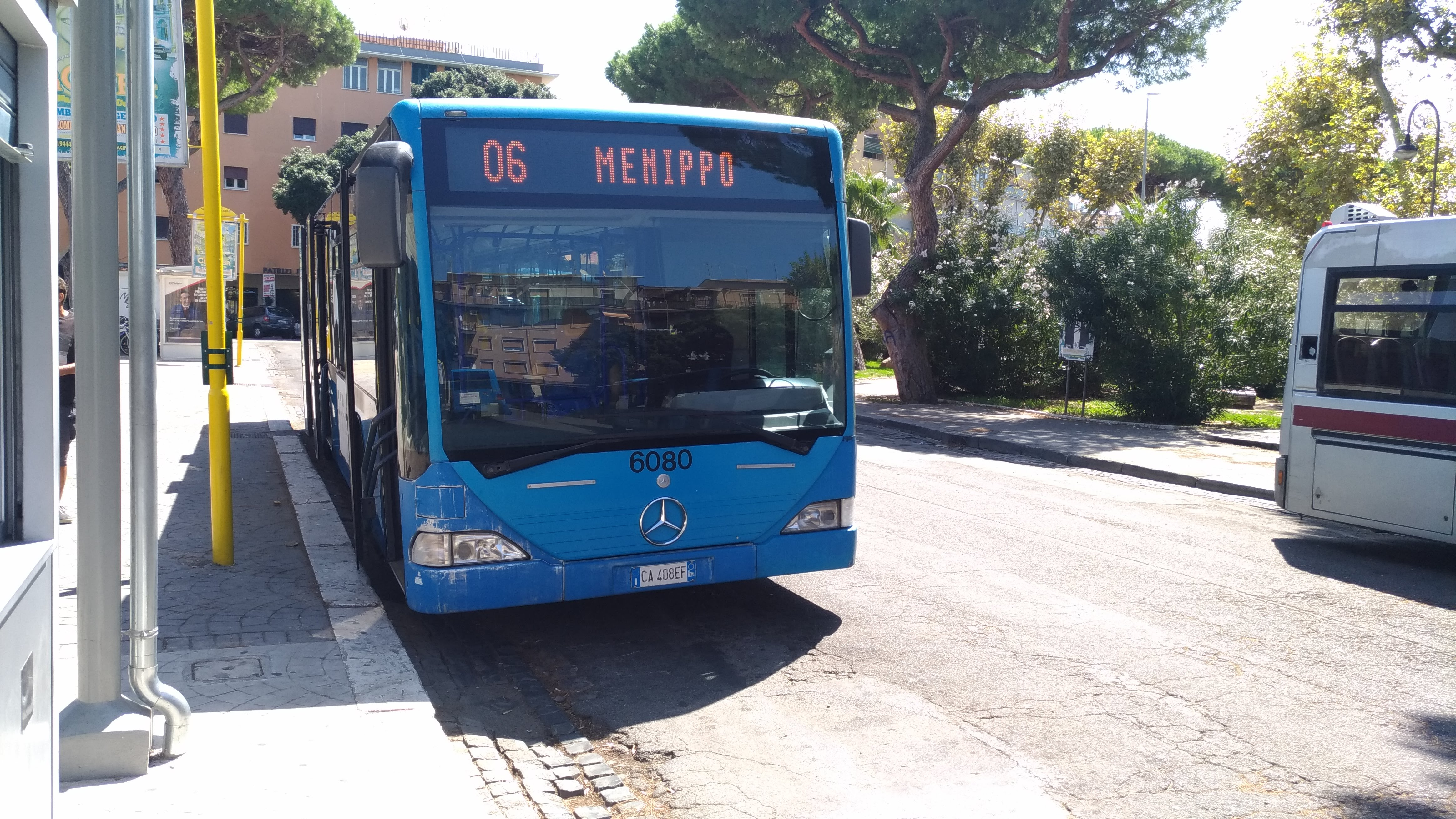 Mercedes-Benz Citaro in Ostia, serving on 06 line (ATAC).